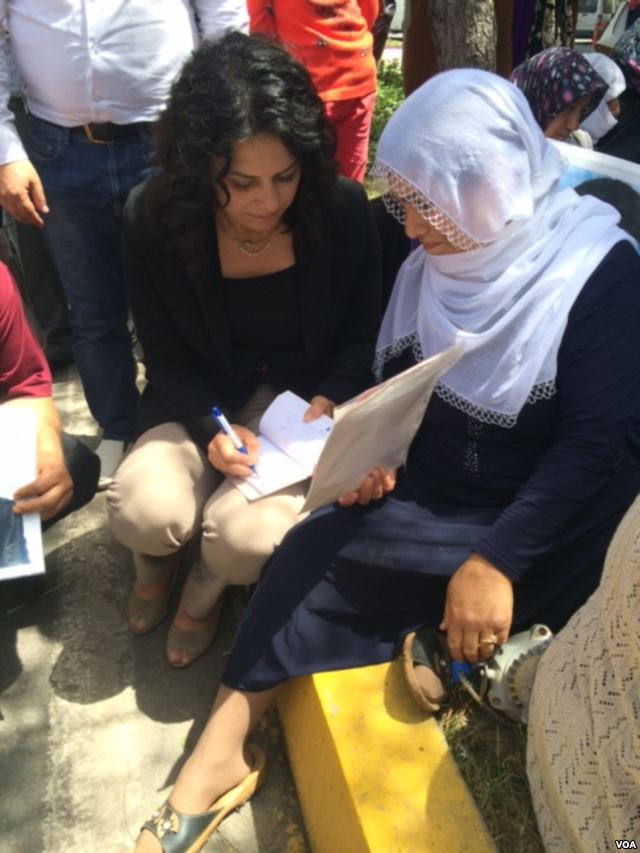 Candan Yüceer, Member of Parliament from the Republican People's Party, visiting Diyarbakır